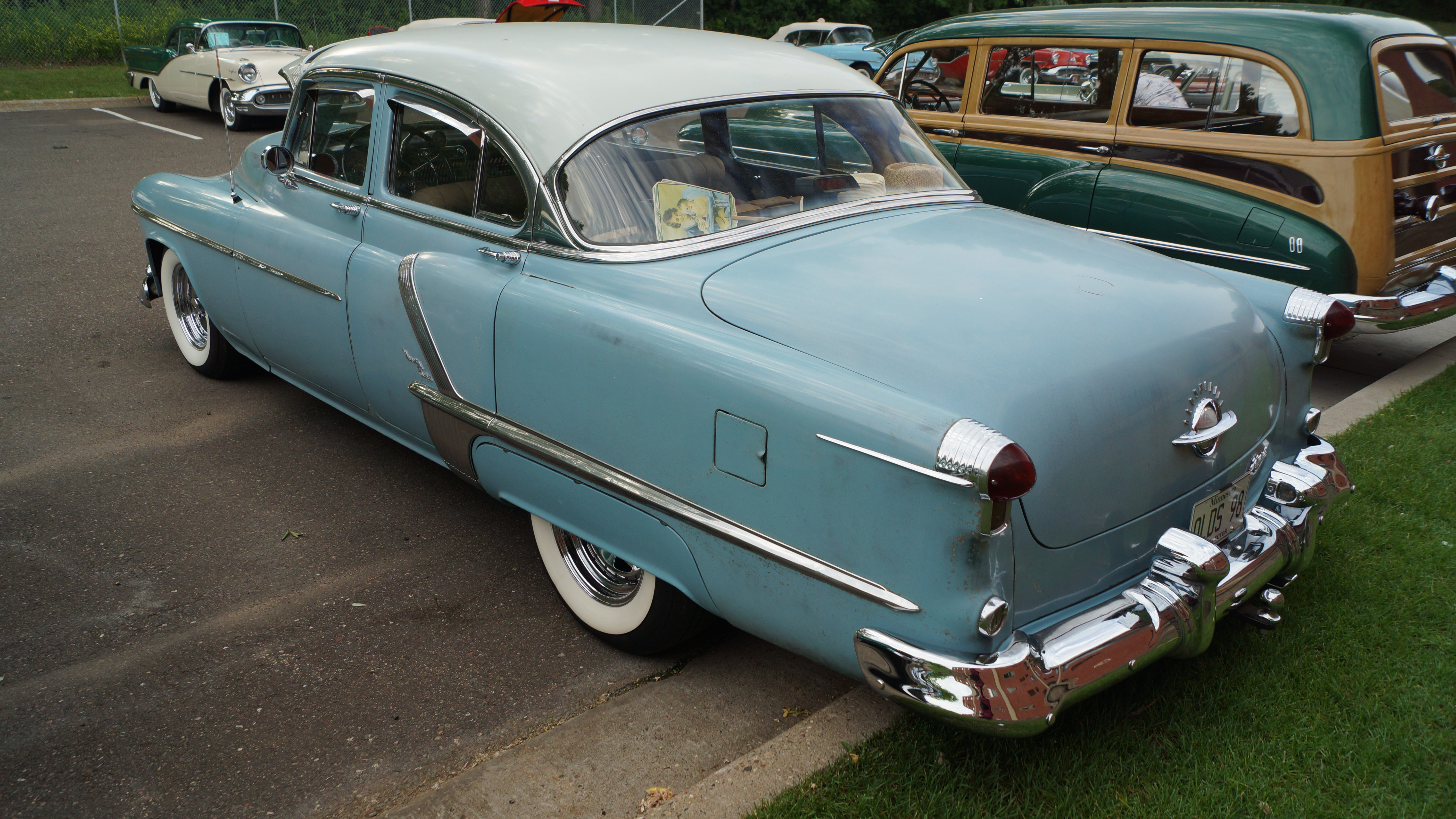 The National Antique Oldsmobile Club National Meet, June 2018 Shoreview, Minnesota Click here for more car pictures by make. Click here for Car Event pictures by year. Or here for my Car Crazy Tumblr site. Or on Twitter @DVS1mn.